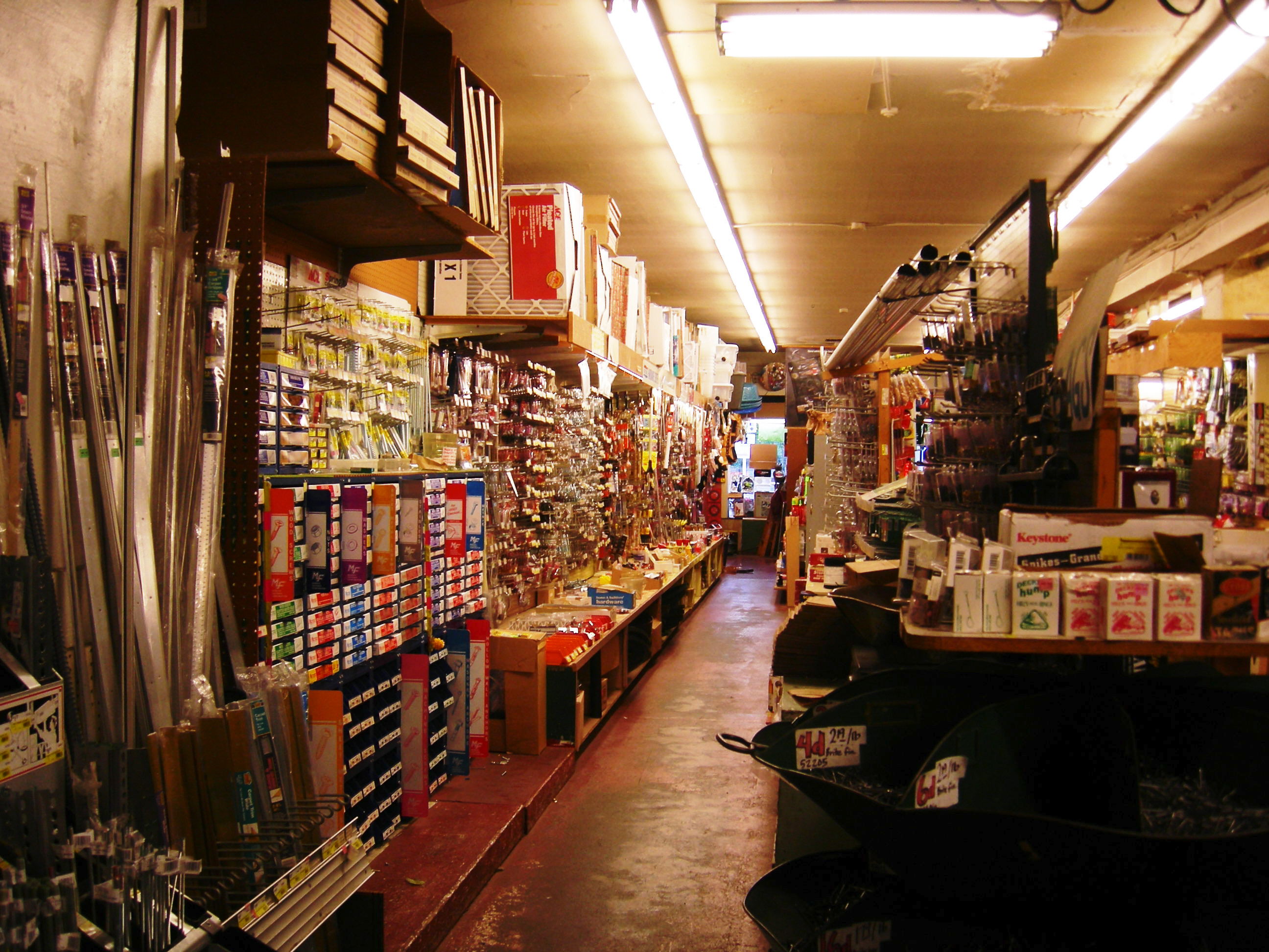 Interior, Tweedy & Popp Hardware Store, 1916 N 45th St, Wallingford neighborhood, Seattle, Washington. Seattle's oldest extant hardware store, founded 1920, in the same location since 1949. After this photo was taken, the shop moved (in 2009) to the basement of the nearby Wallingford Center, a historic former school building.